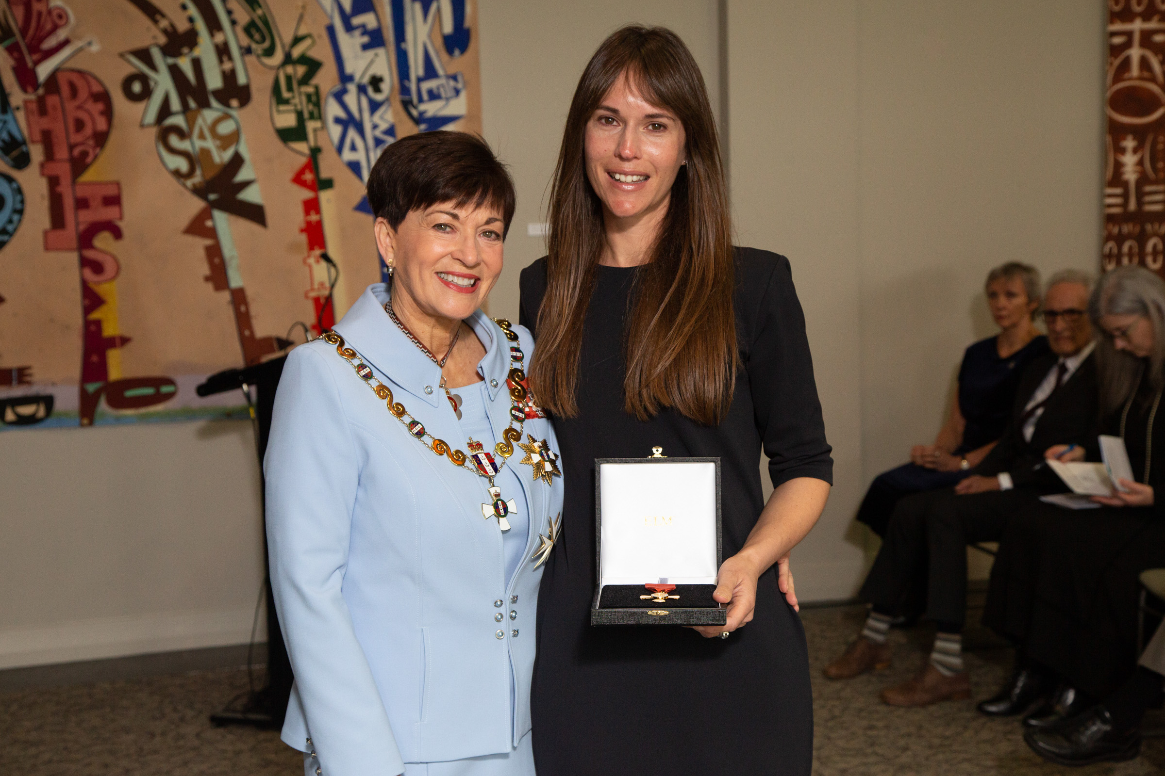 Julia Black (right), after receiving the insignia of Officer of the New Zealand Order of Merit awarded to her late husband, Malcolm Black, for services to the music industry, from the governor-general, Dame Patsy Reddy, at Government House, Auckland, on 3 September 2019.